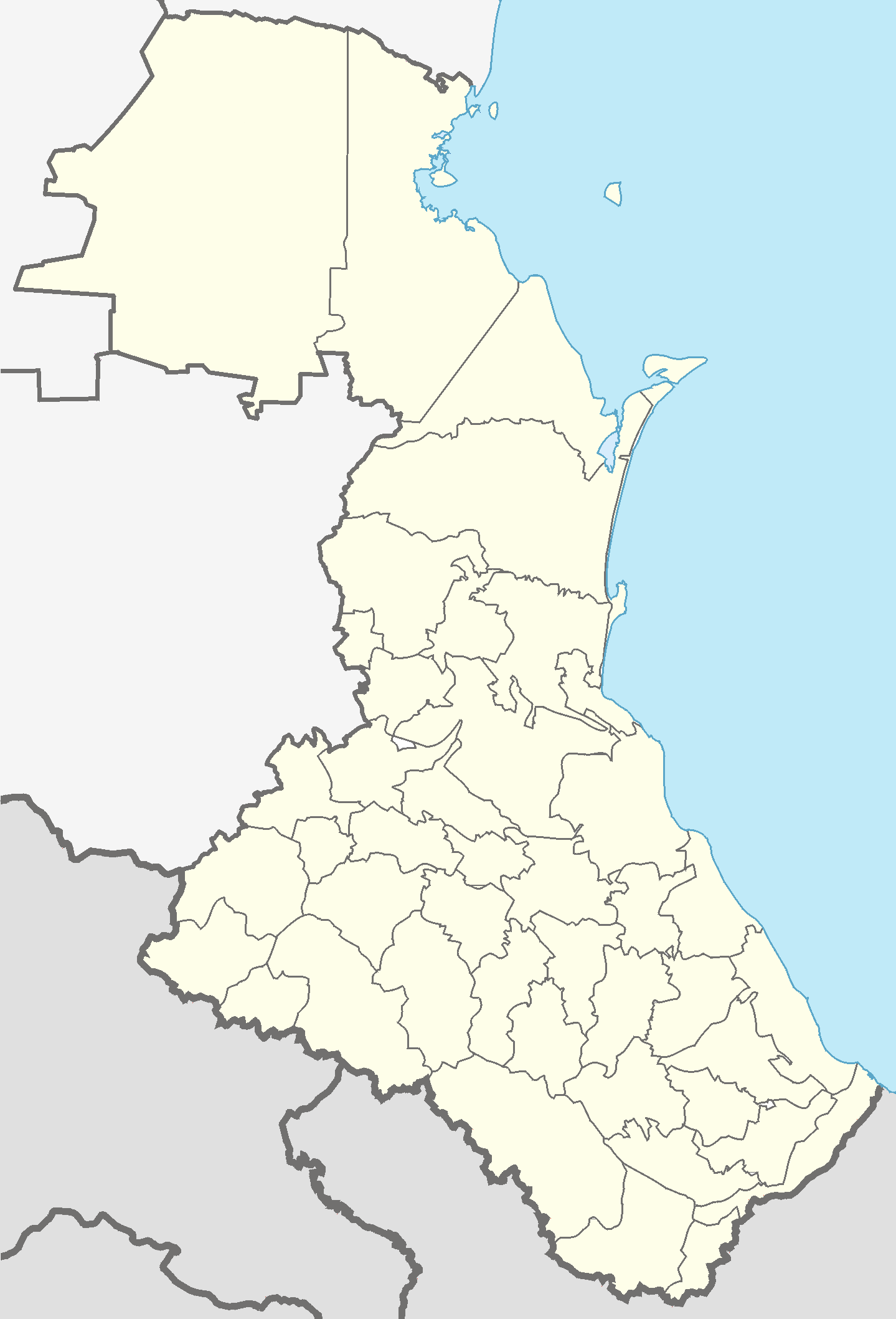 Location map of Dagestan